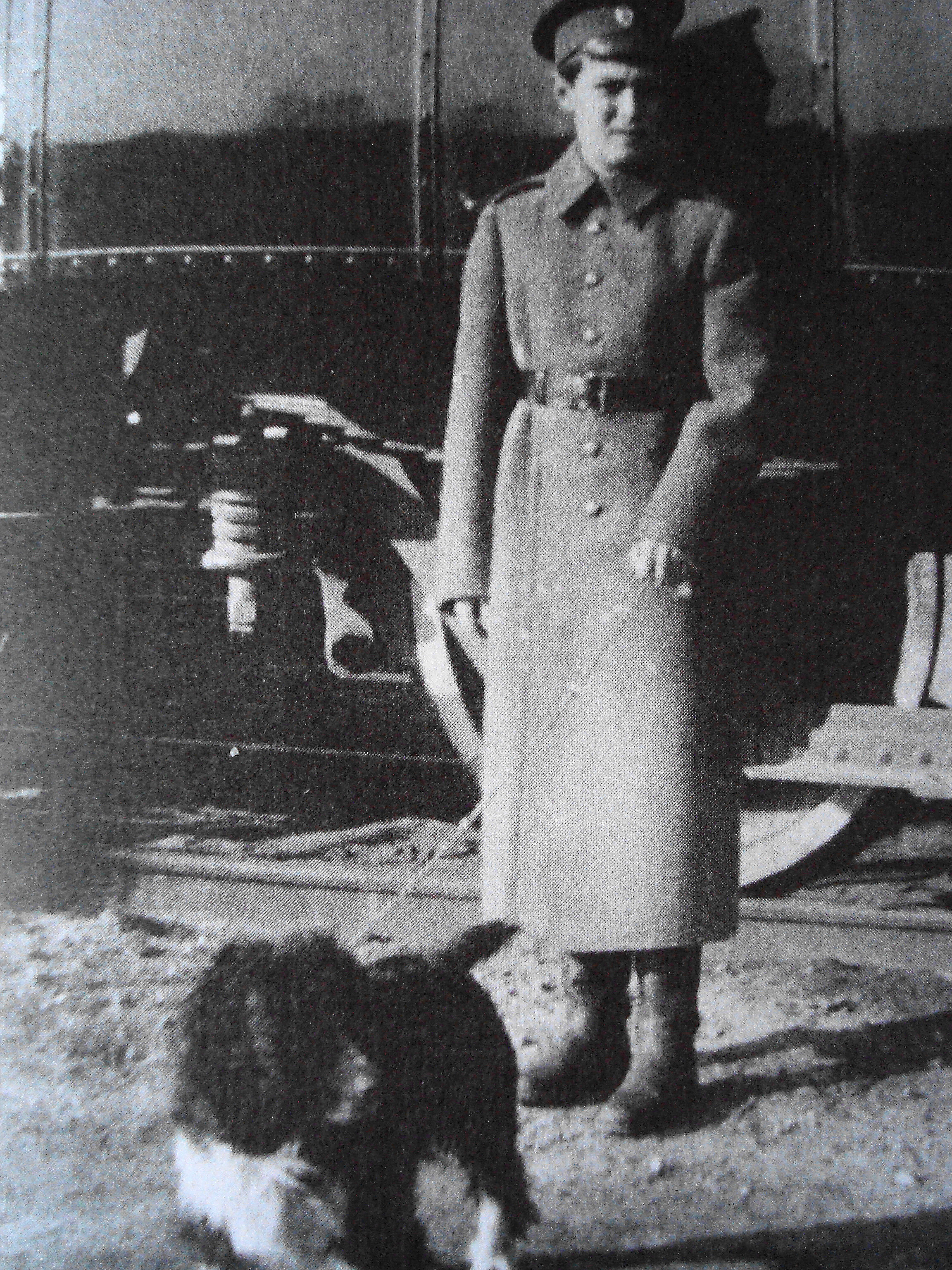 Tsarevich Alexei Nikolaievich of Russia with his pet dog Joy.